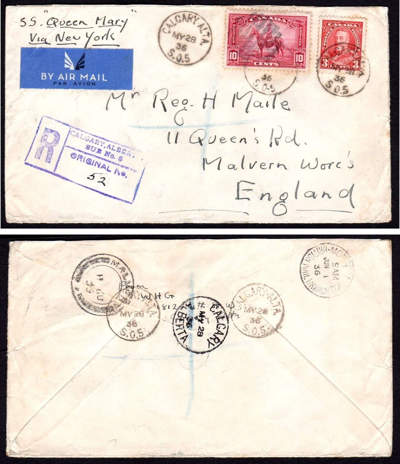 1936 cover that travelled on the Queen Mary from Alberta Canada to Malvern, Worcestershire, U.K.